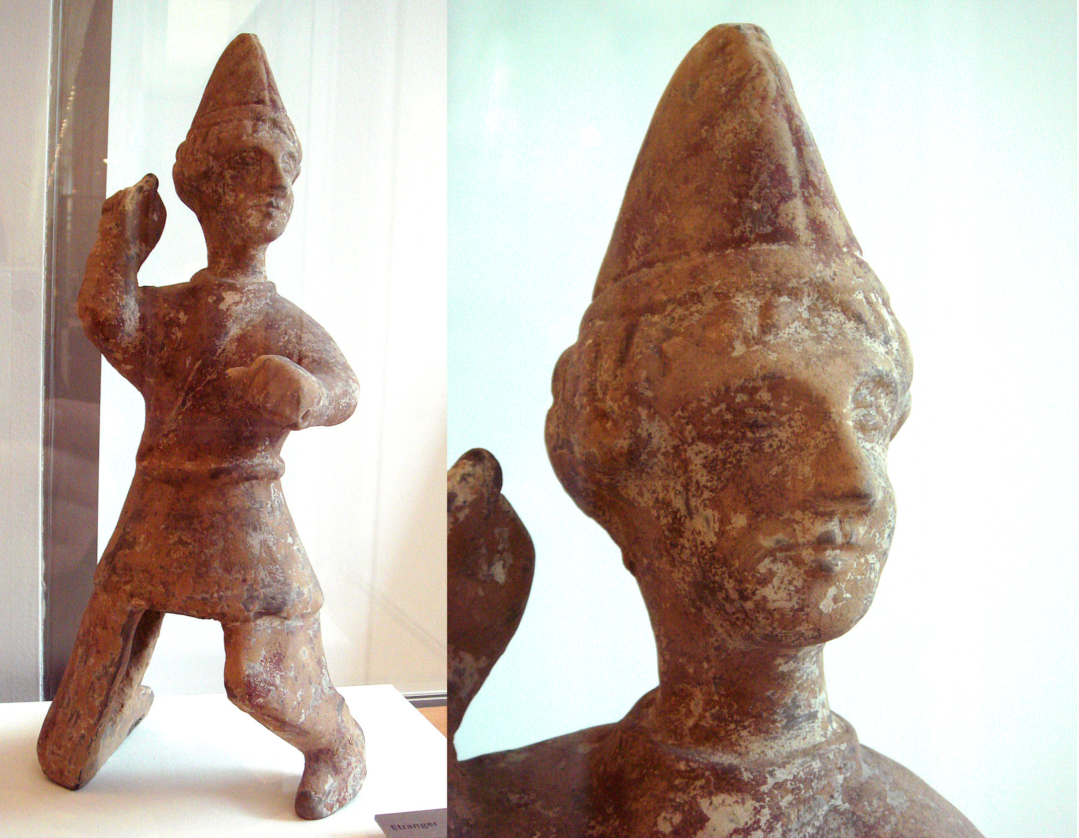 A foreign Sogdian soldier, Eastern Han, early 3rd century, polychrome terracotta. Musée Guimet, Paris.